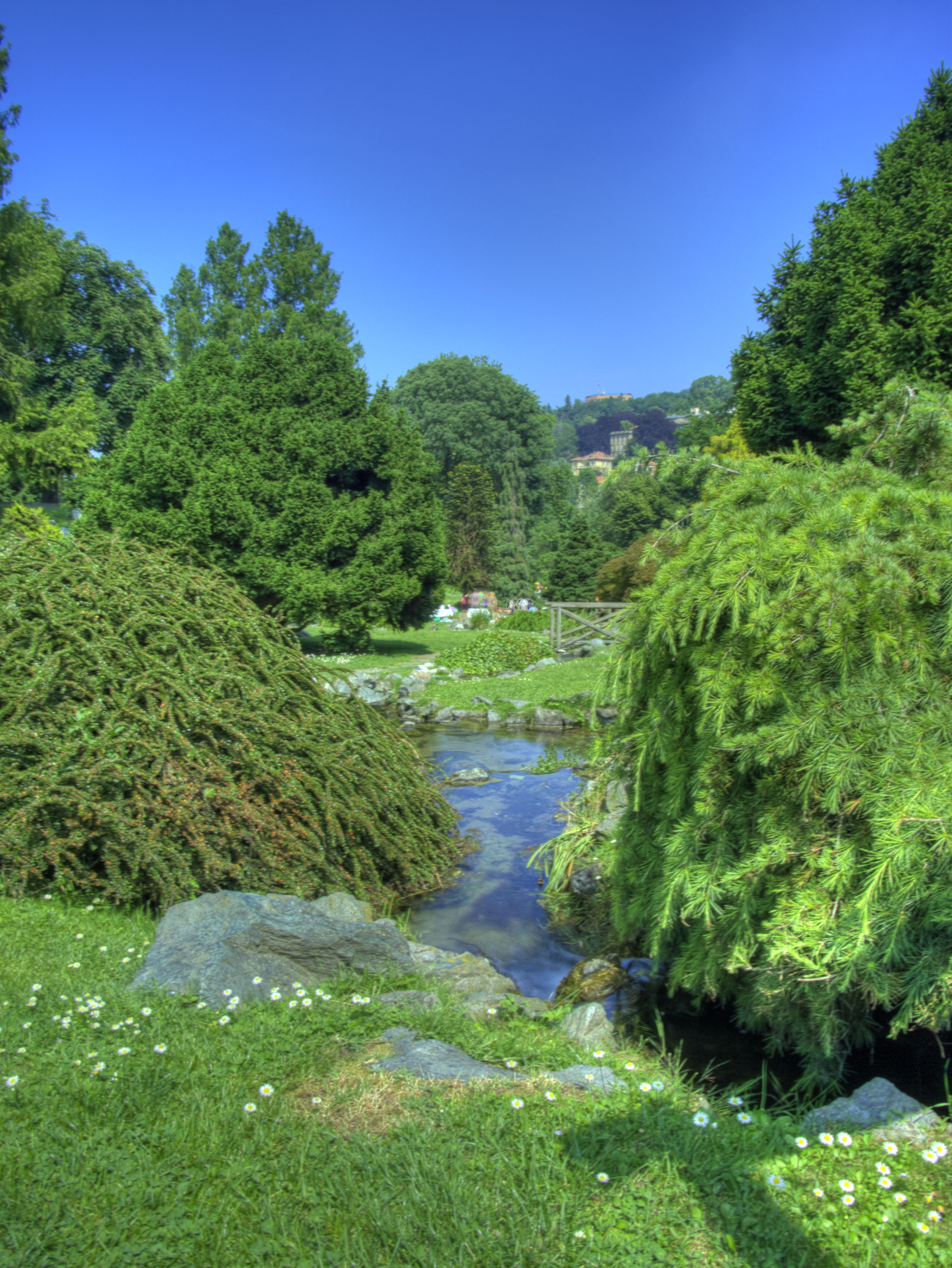 Rocky Garden, Valetino Park, Turin, Italy